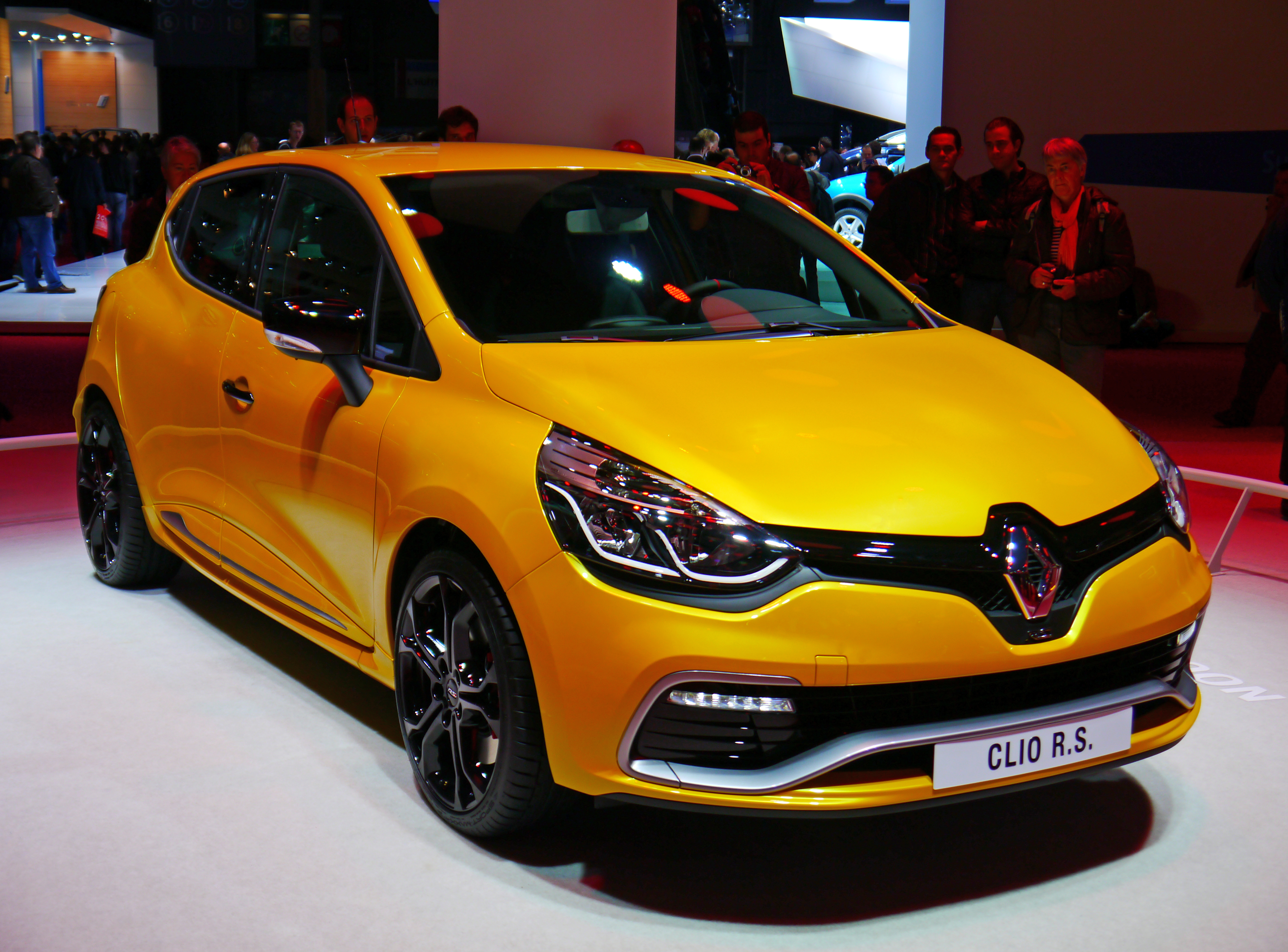 Renault Clio IV RS 200 Turbo. 1.6 turbocharged engine (200 bhp; 177 lb-ft of torque) coupled with the EDC dual clutch transmission and paddle gear changes.